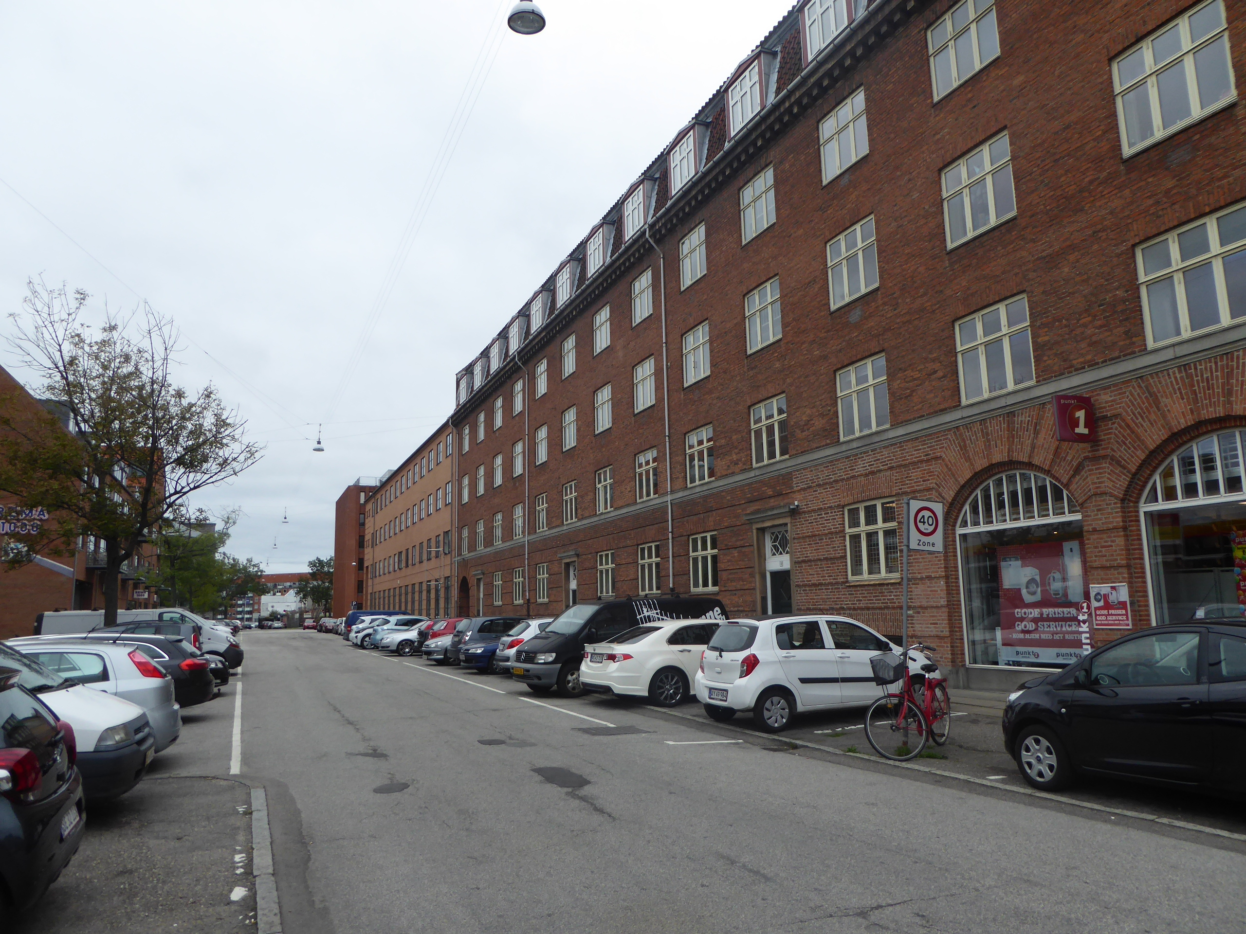 The street Omøgade in Østerbro in Copenhagen.